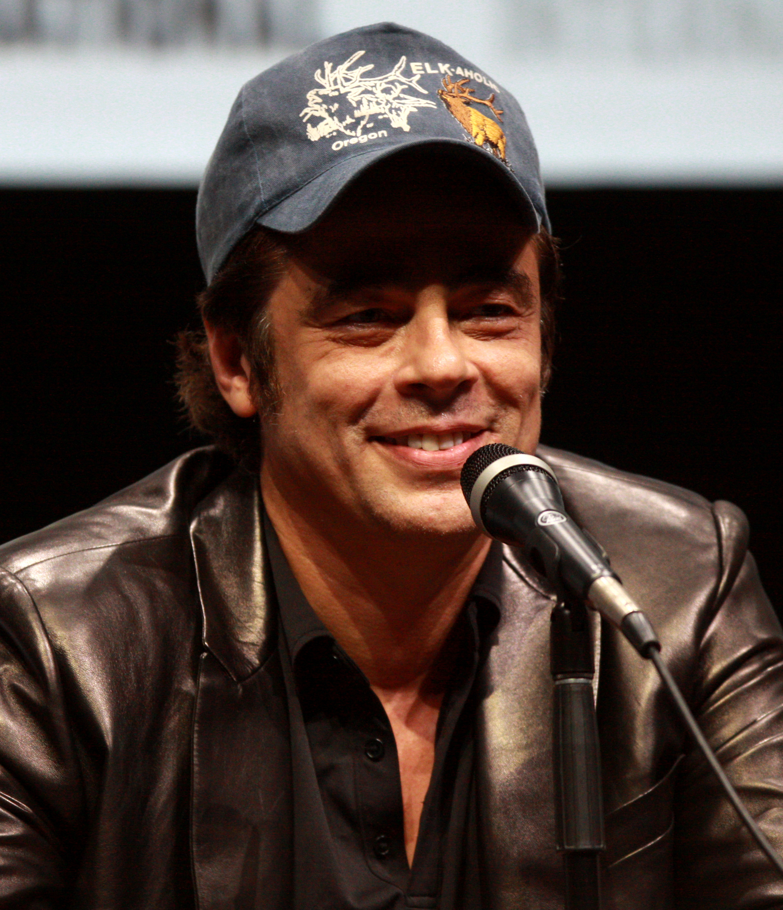 Benicio Del Toro at the 2013 San Diego Comic Con International in San Diego, California.